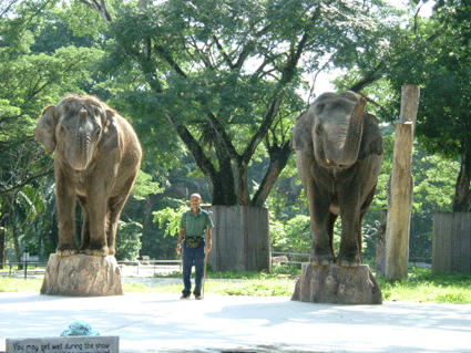 Elephant show at zoo negara,Malaysia